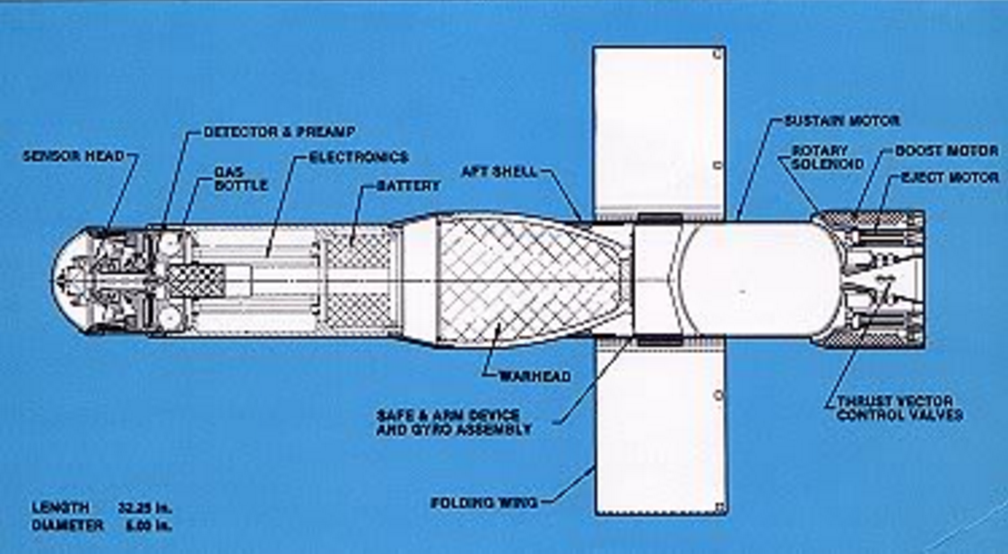 Raytheon AAWS-M anti-tank missile cutaway.